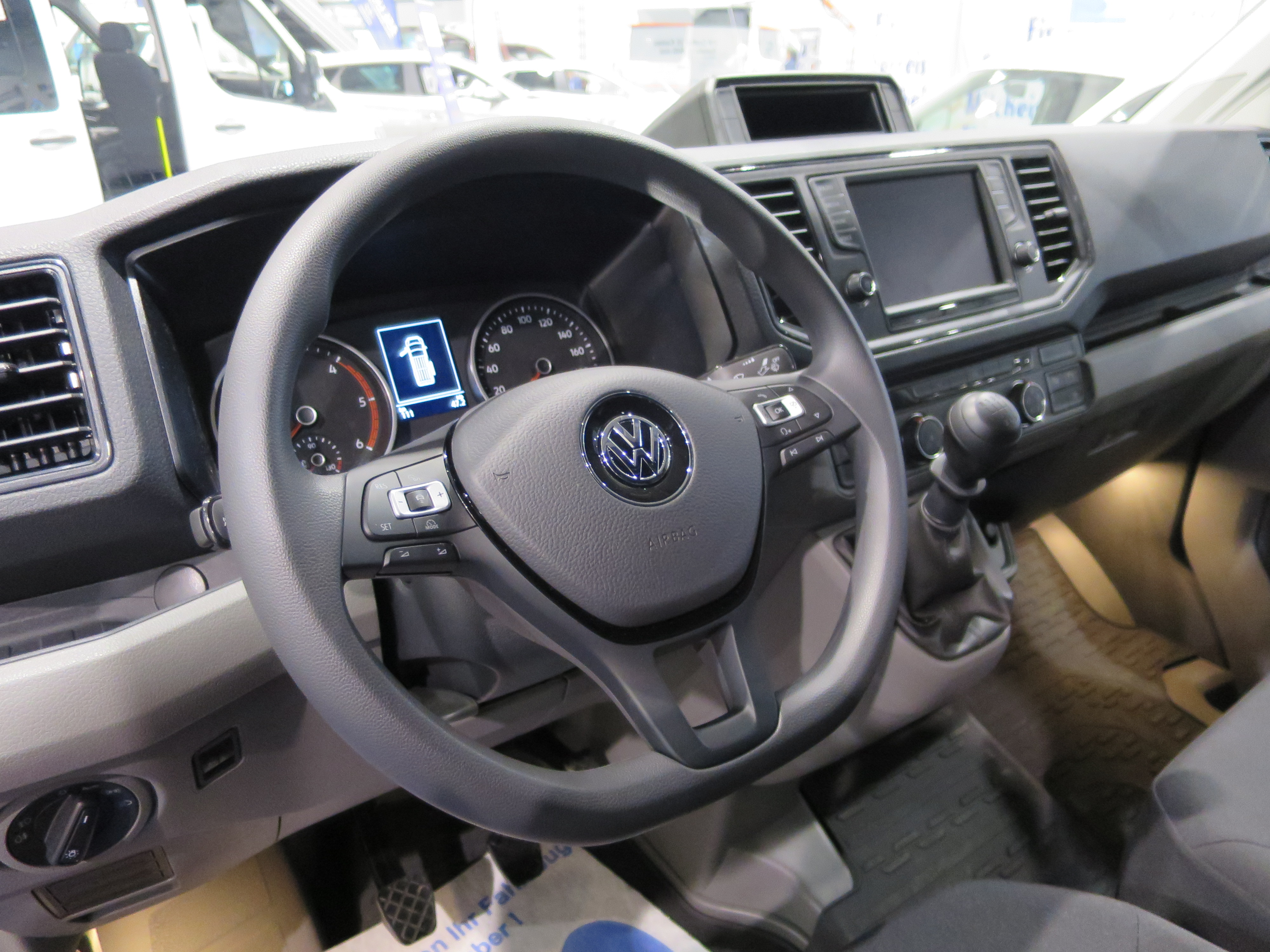 Volkswagen Crafter.